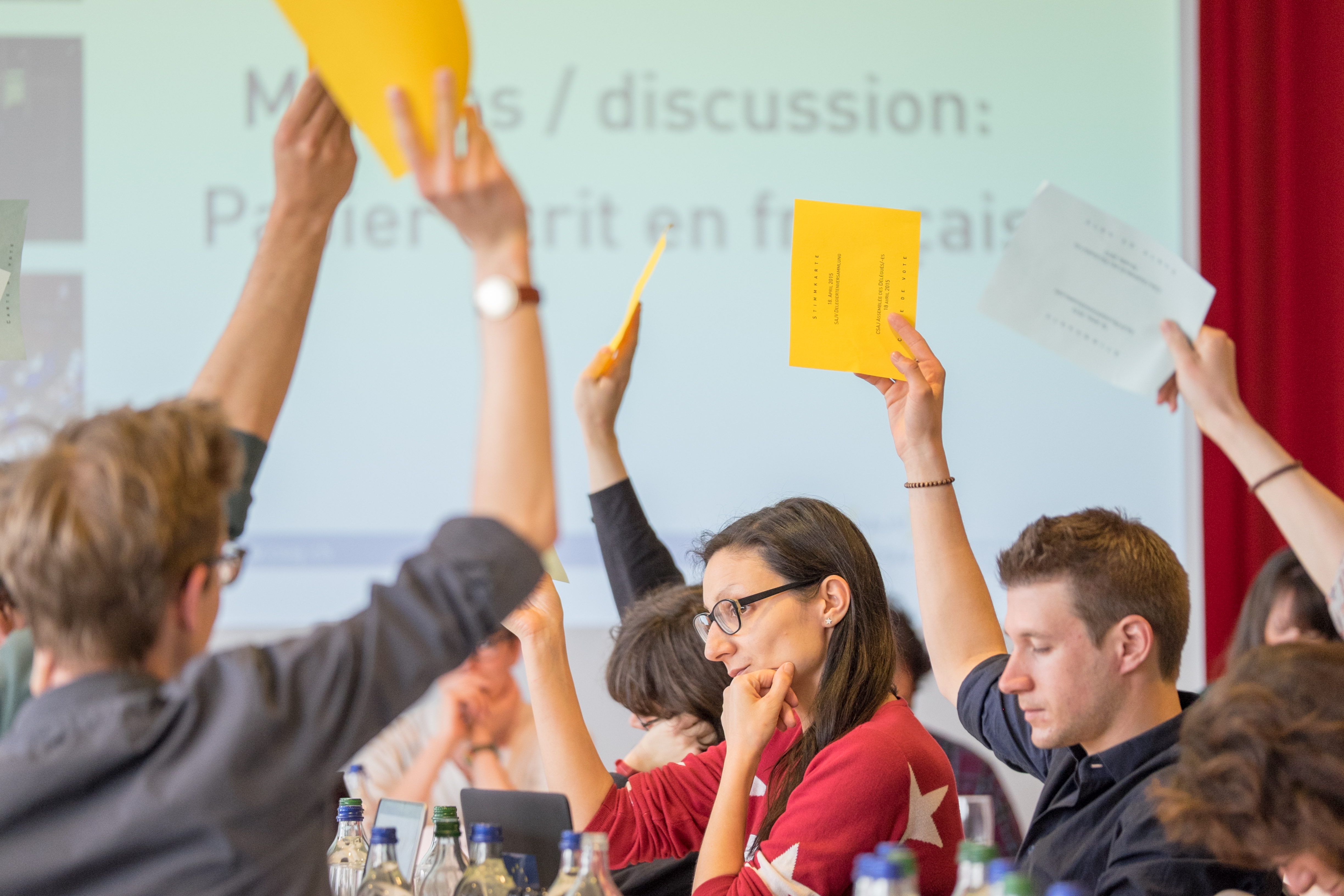 Assembly of delegates of the Swiss National Youth Council 2015